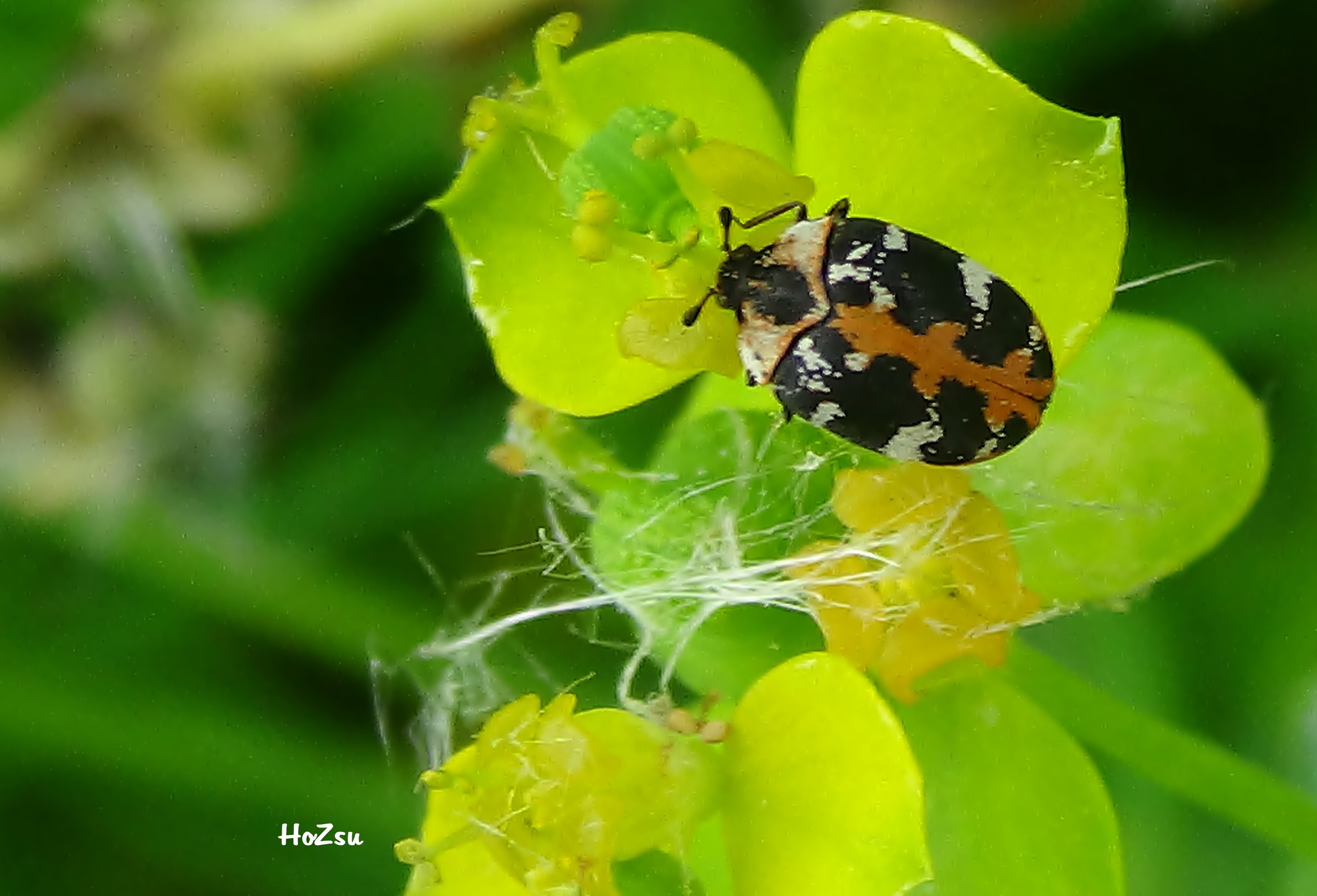 Anthrenus scrophulariae on Euphorbia cyparissias